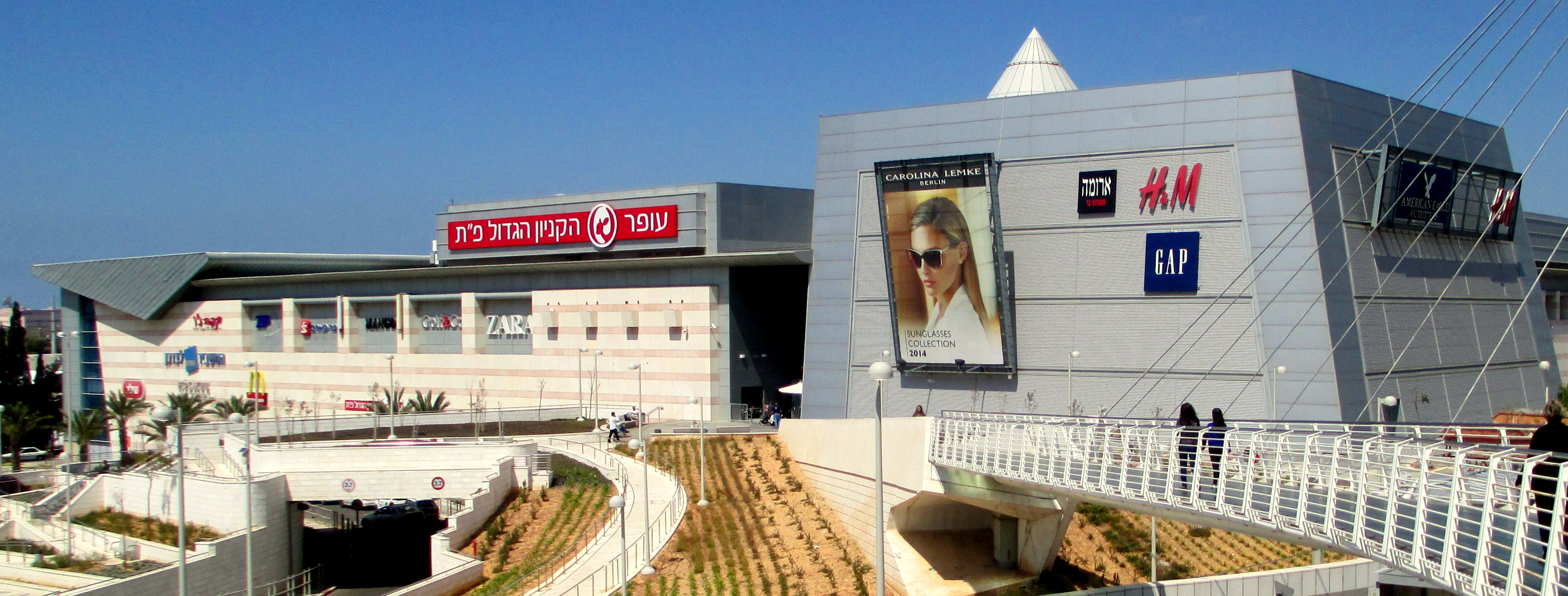 Derivative work of File:Grand Mall in Petah Tikva.JPG by User:Avi1111